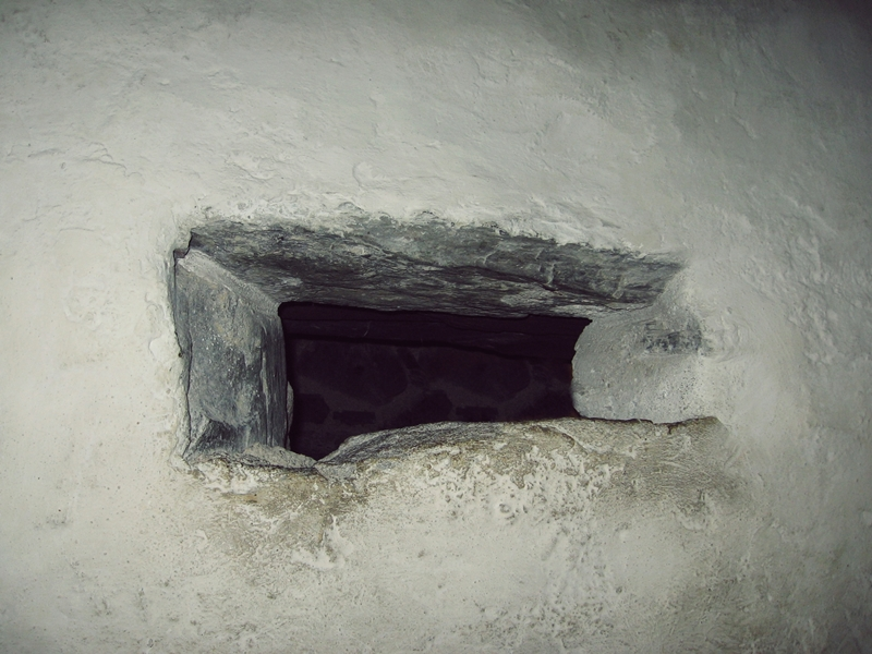 Агиоскоп в крепости Олавинлинна в восточной Финляндии